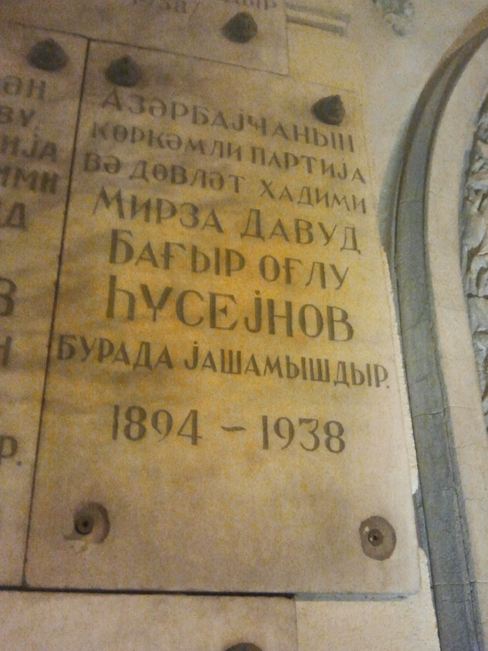 Plaque on building where Mirza Davud Huseynov lived in Baku